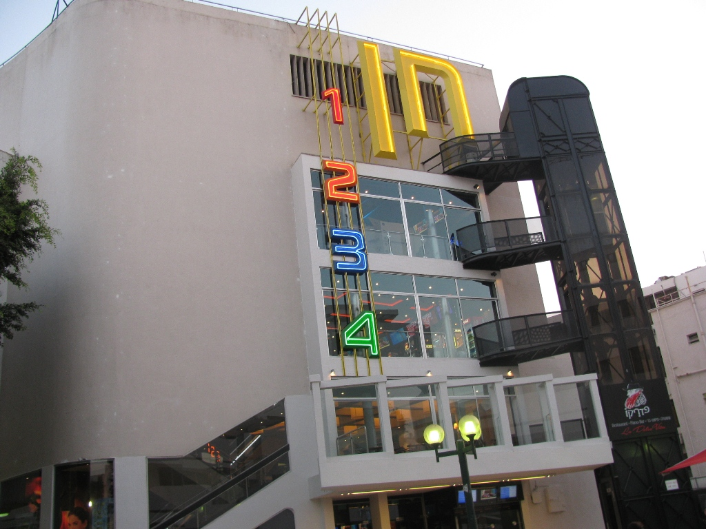 Chen renewed Cinema